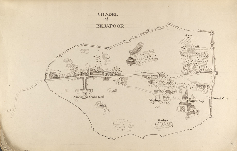 f.3' Citadel of Bejapoor. Plan.'